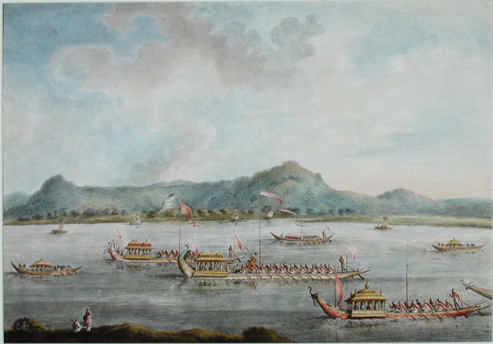 Series Title: The Hastings Album Suite Name: The Hastings Album Display Artist: Sita Ram Creation Date: 1814 Display Dimensions: 17 29/32 in. x 25 3/16 in. (45.5 cm x 64 cm) Credit Line: Edwin Binney 3rd Collection Accession Number: 1990.1376 Collection: The San Diego Museum of Art